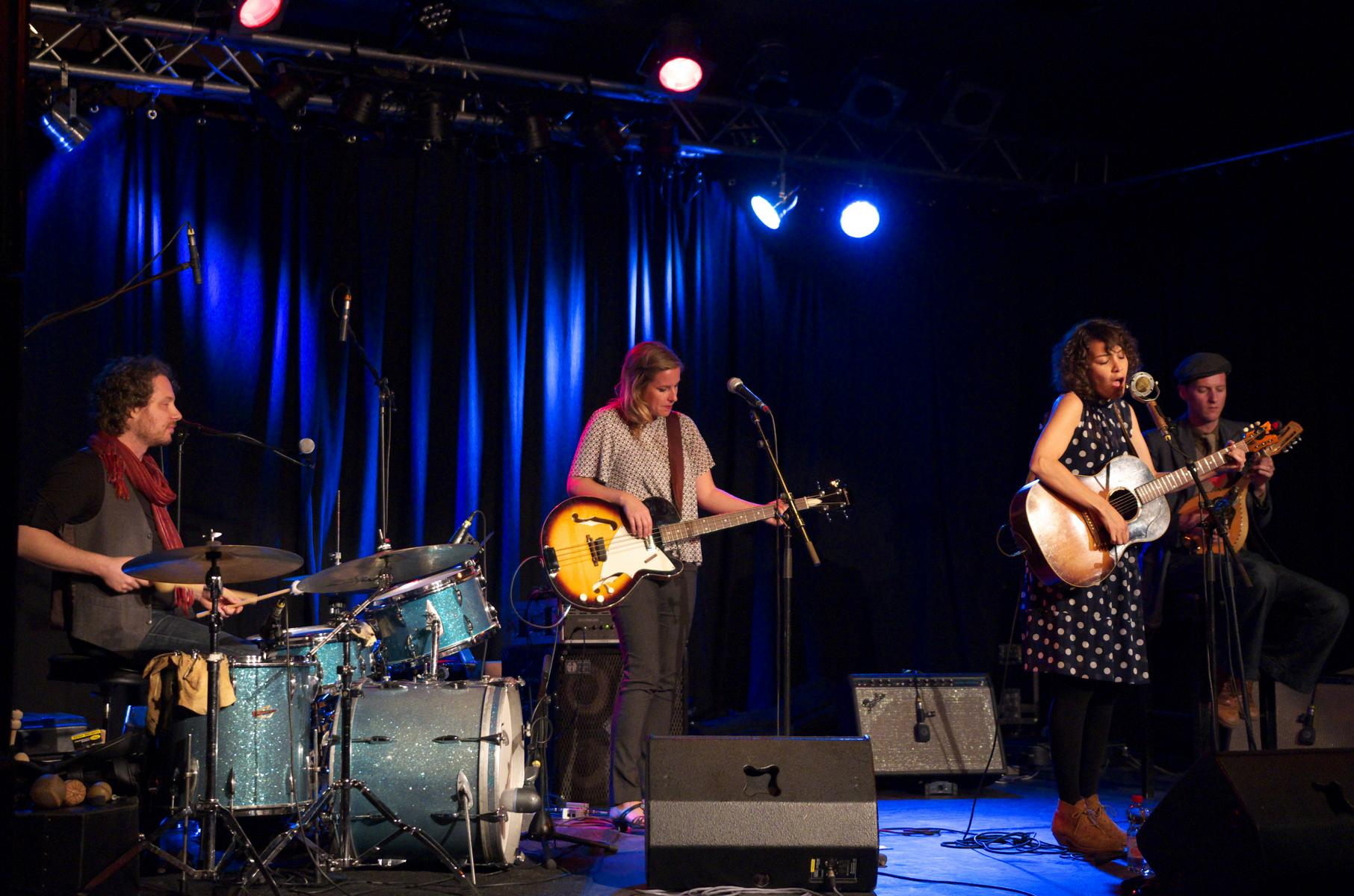 Gaby Moreno & Band during a concert in Friedrichshafen/Germany March 20, 2015